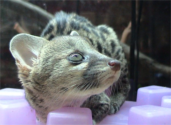 Genet